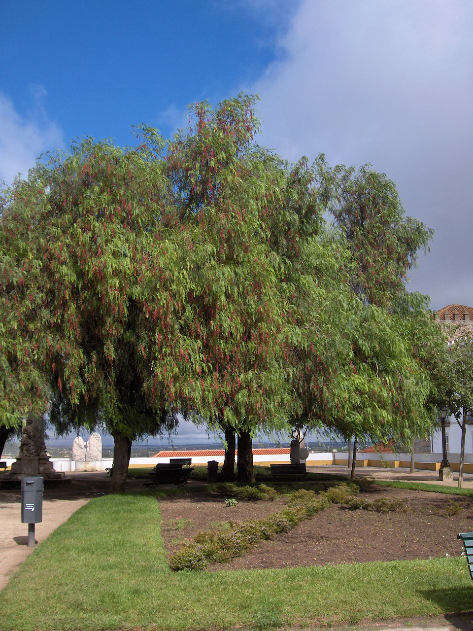 Peruvian Peppertree Schinus molle